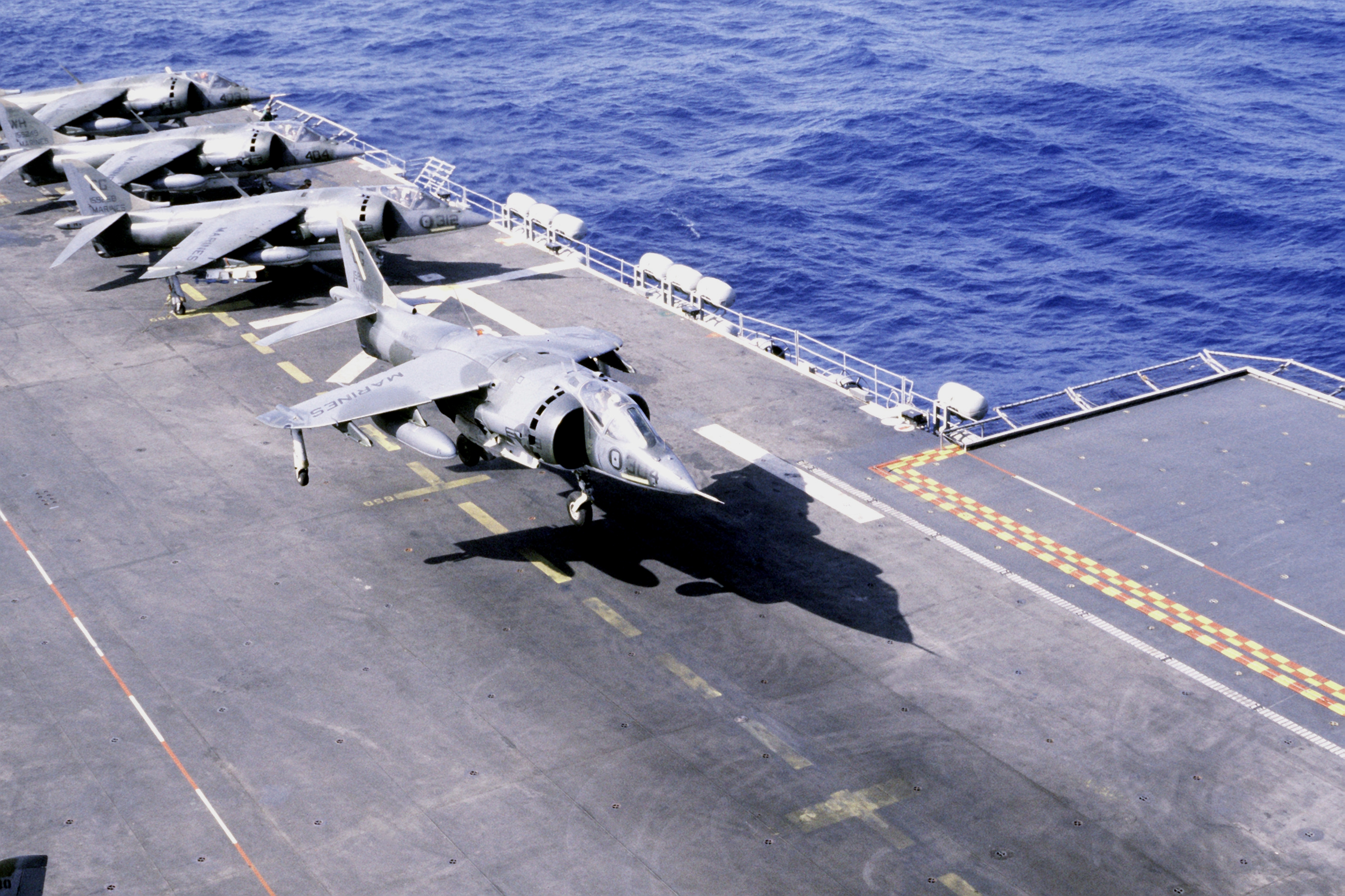 A U.S. Marine Corps Hawker Siddeley AV-8A Harrier from Marine Attack Squadron VMA-231 Ace of Spades takes off from the amphibious assault ship USS Nassau (LHA-4) in 1982. One Harrier from VMA-231 and two from VMA-542 Tigers are parked in the background.